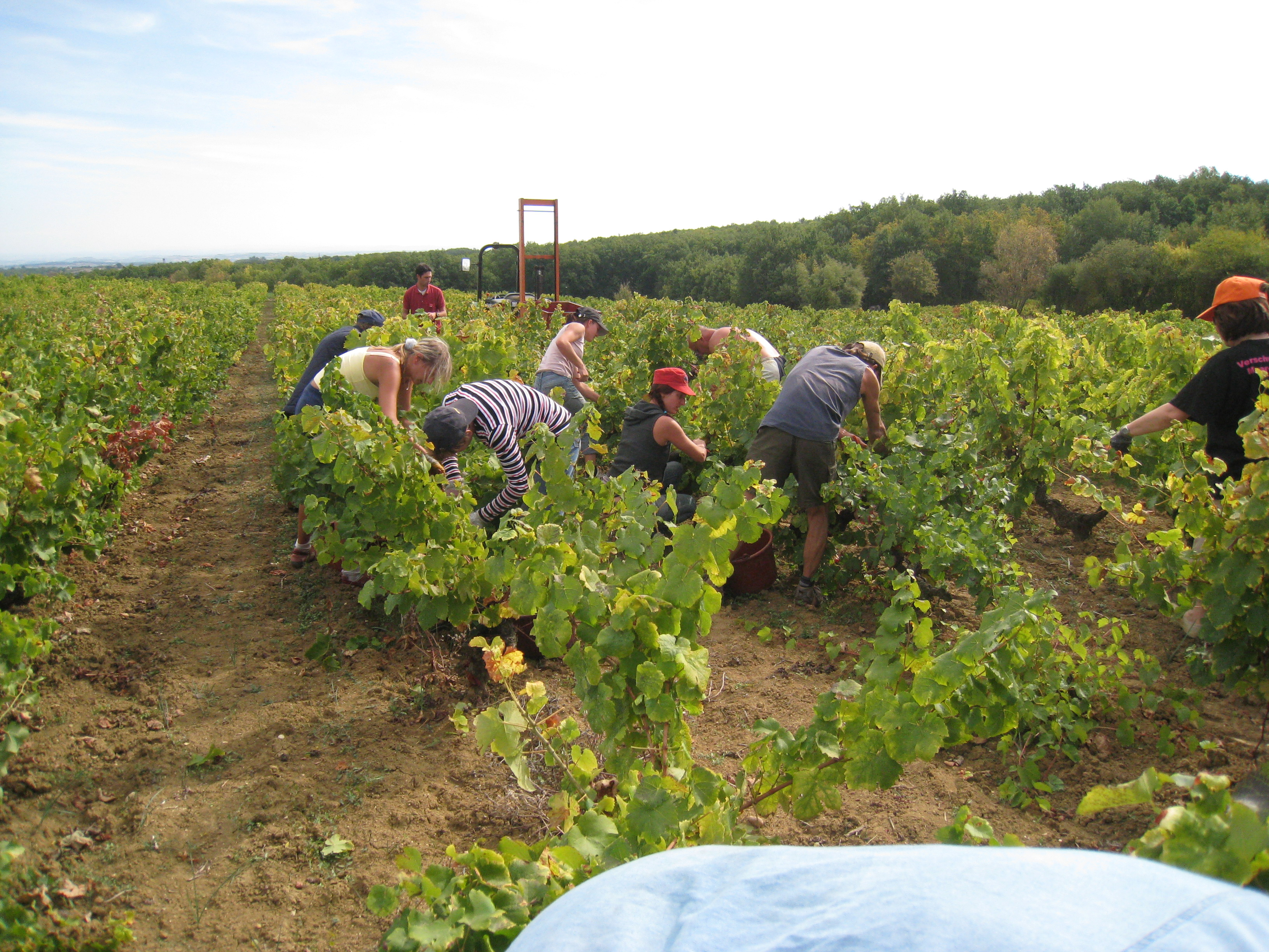 Harvesting grapes for Ivonne in Gaillac chez Plageoles from gobelet trained vines.